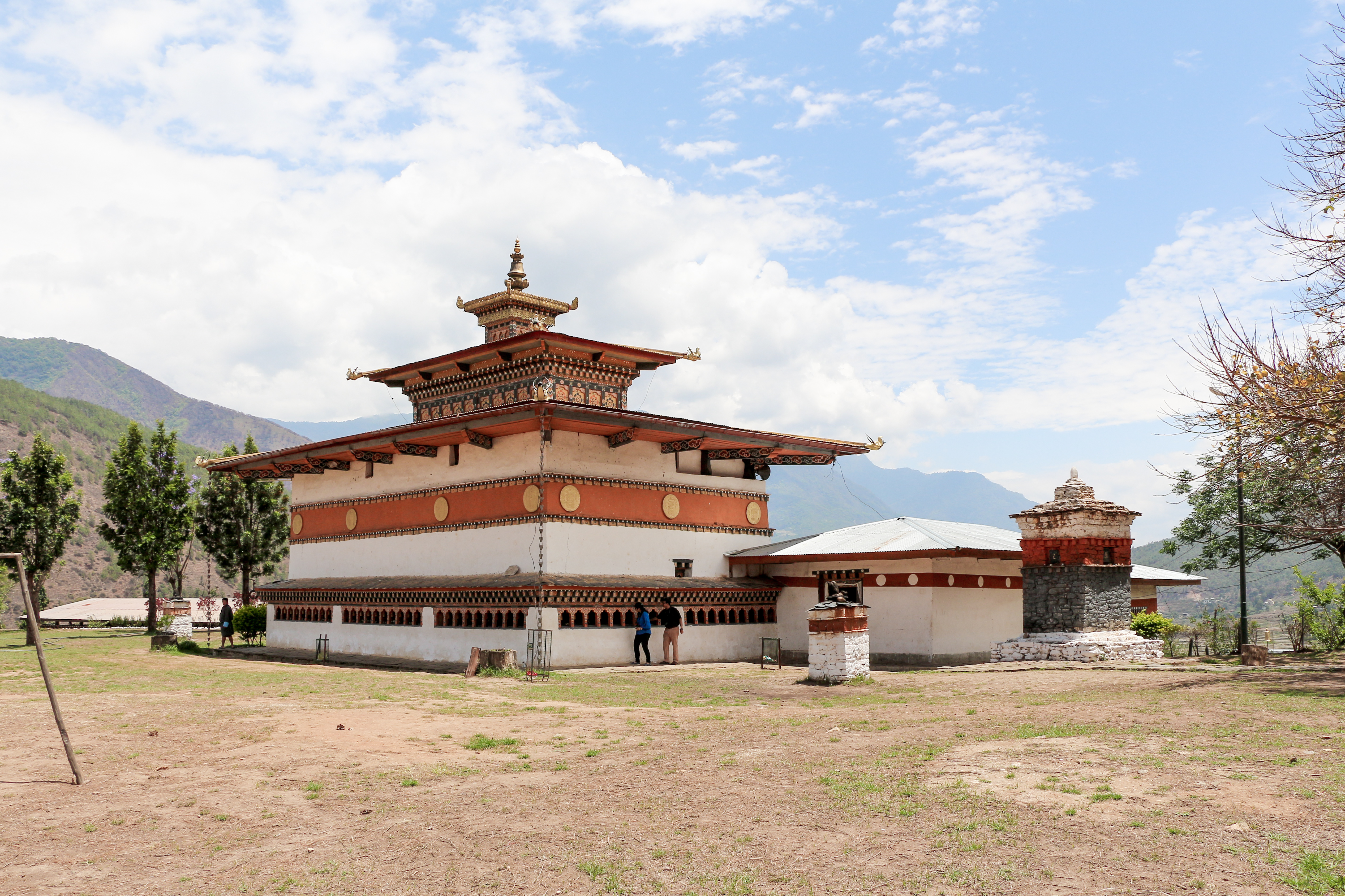 Chimi Lakhang monastery, Bhutan